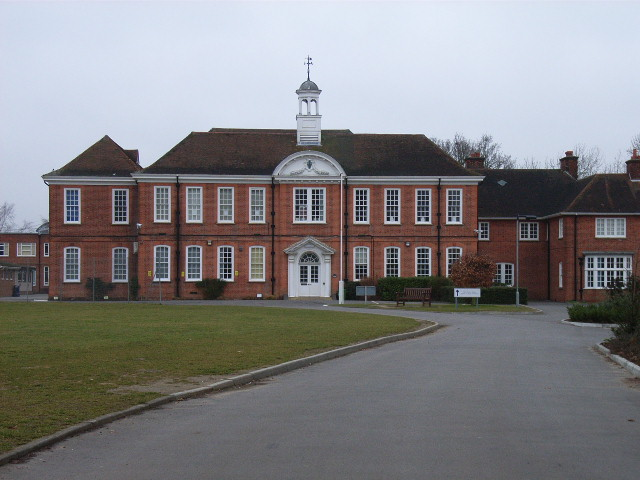 Ranelagh School, Bracknell. Architecture not characteristic of the town.